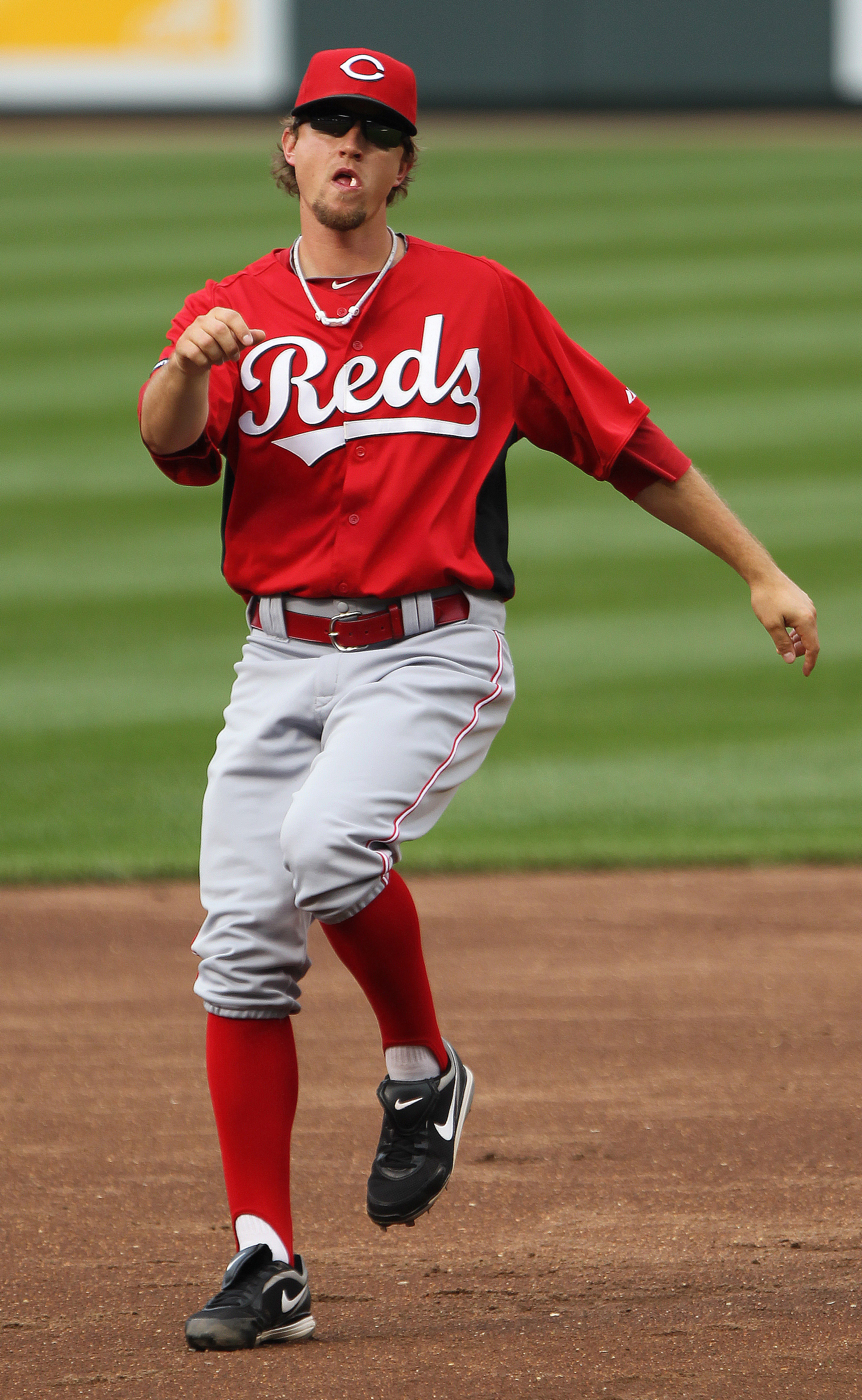 Reds at Orioles June 25, 2011